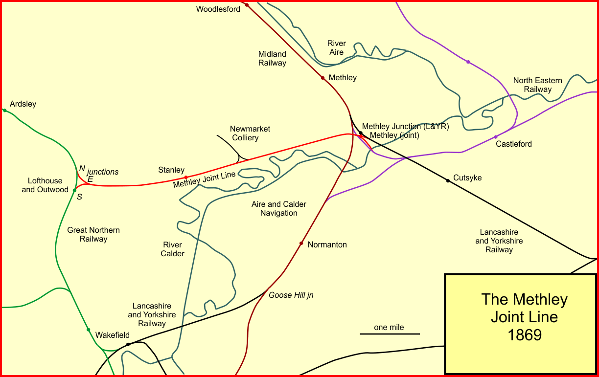 System map of the Methley Joint Line railway in Yorkshire, England, in 1867